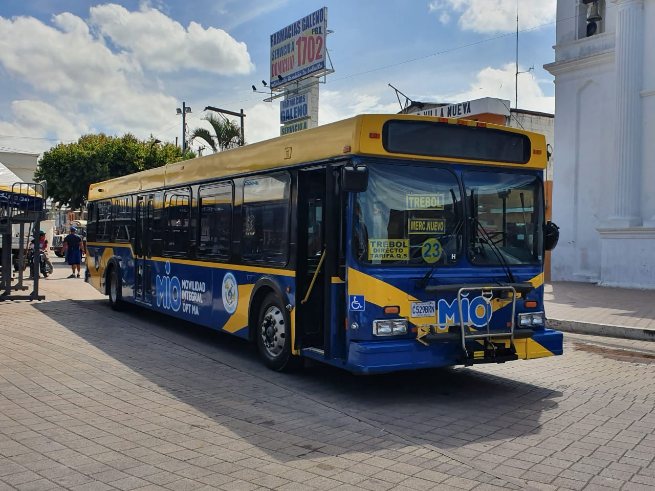 Urban bus in Villa Nueva City of Guatemala